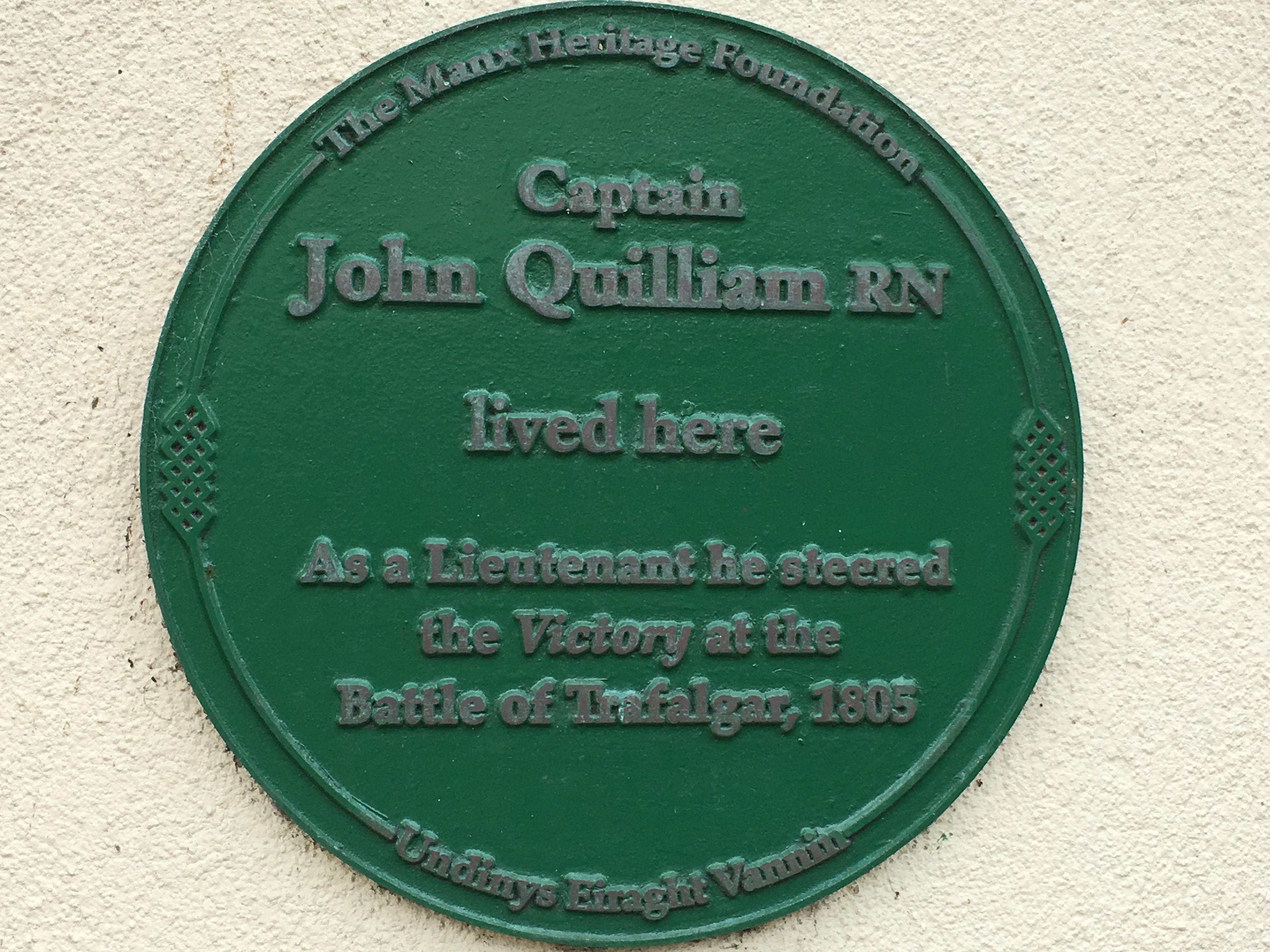 Balcony House, the home of Captain John Quilliam